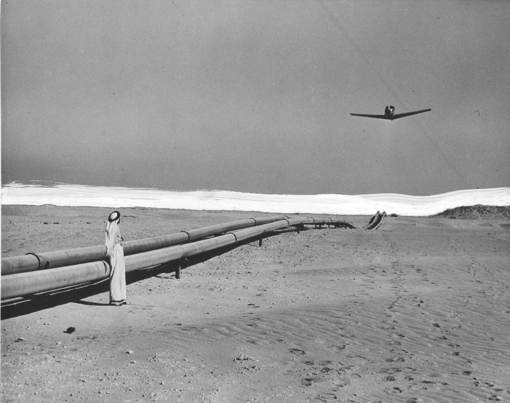 Ryan Navion over the Trans-Arabian Pipeline. Repository: San Diego Air and Space Museum Archive